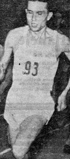 Simo Vazič